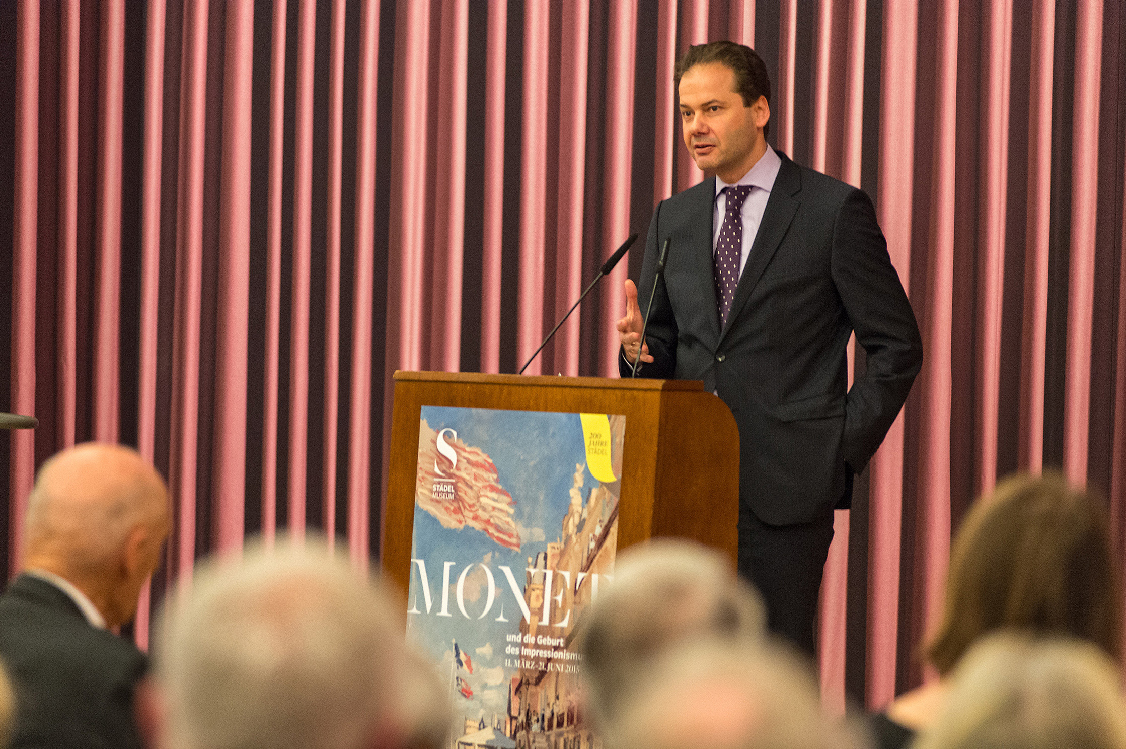 Max Hollein, Director of Schirn Kunsthalle, Städel Museum and Liebieghaus Skulpturensammlung, at the opening of the Monet exhibition in the Städel Museum in 2015.